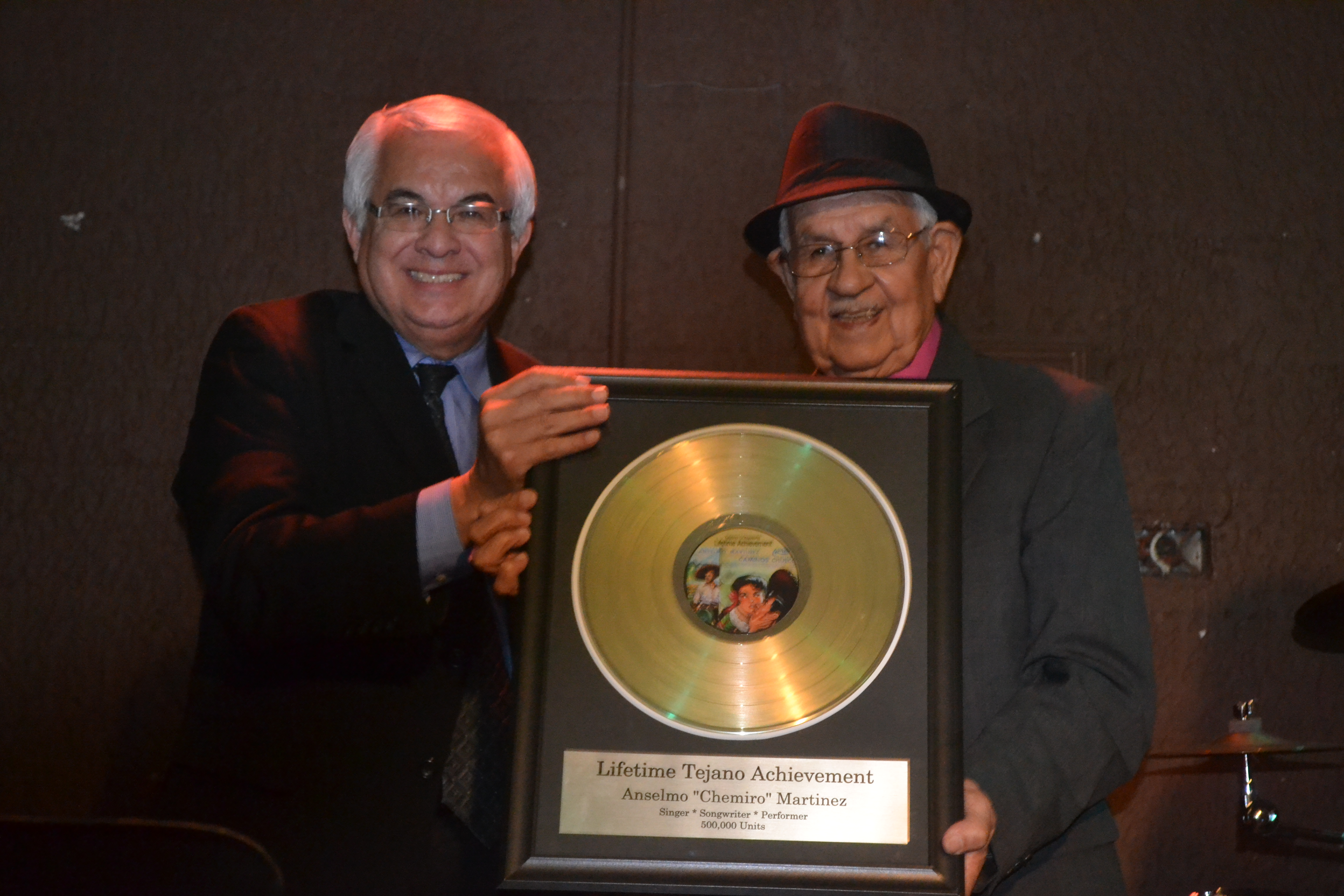 Picture taken September 2012 of Tejano Music Award President Robert Arrellano and Vice President Frank Salazar presenting Anselmo "El Chemiro" Martinez with the Lifetime Achievement Award at the Royal Palace in San Antonio, Texas.